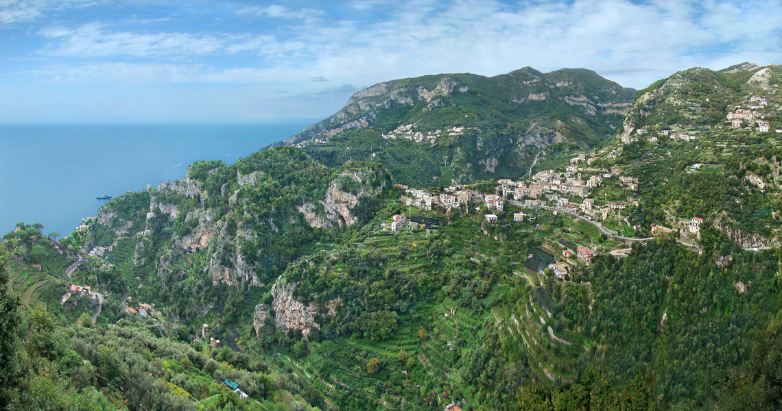 Amalfi Coast, Campania, Italy. View from Ravello, toward Pontone on the hills and Atrani on the sea front.